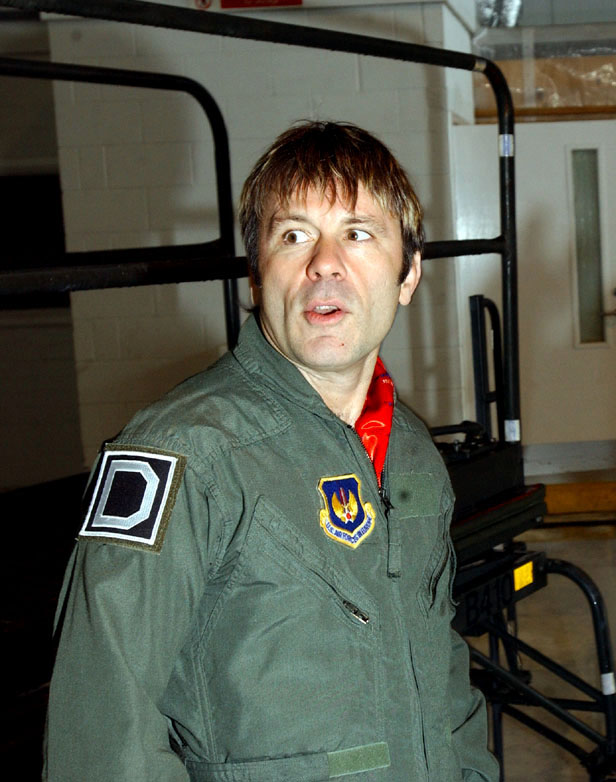 Iron Maiden singer Bruce Dickinson during the filming of a five-part series for the Discovery Channel titled "Flying Heavy Metal" in pilot outfit.